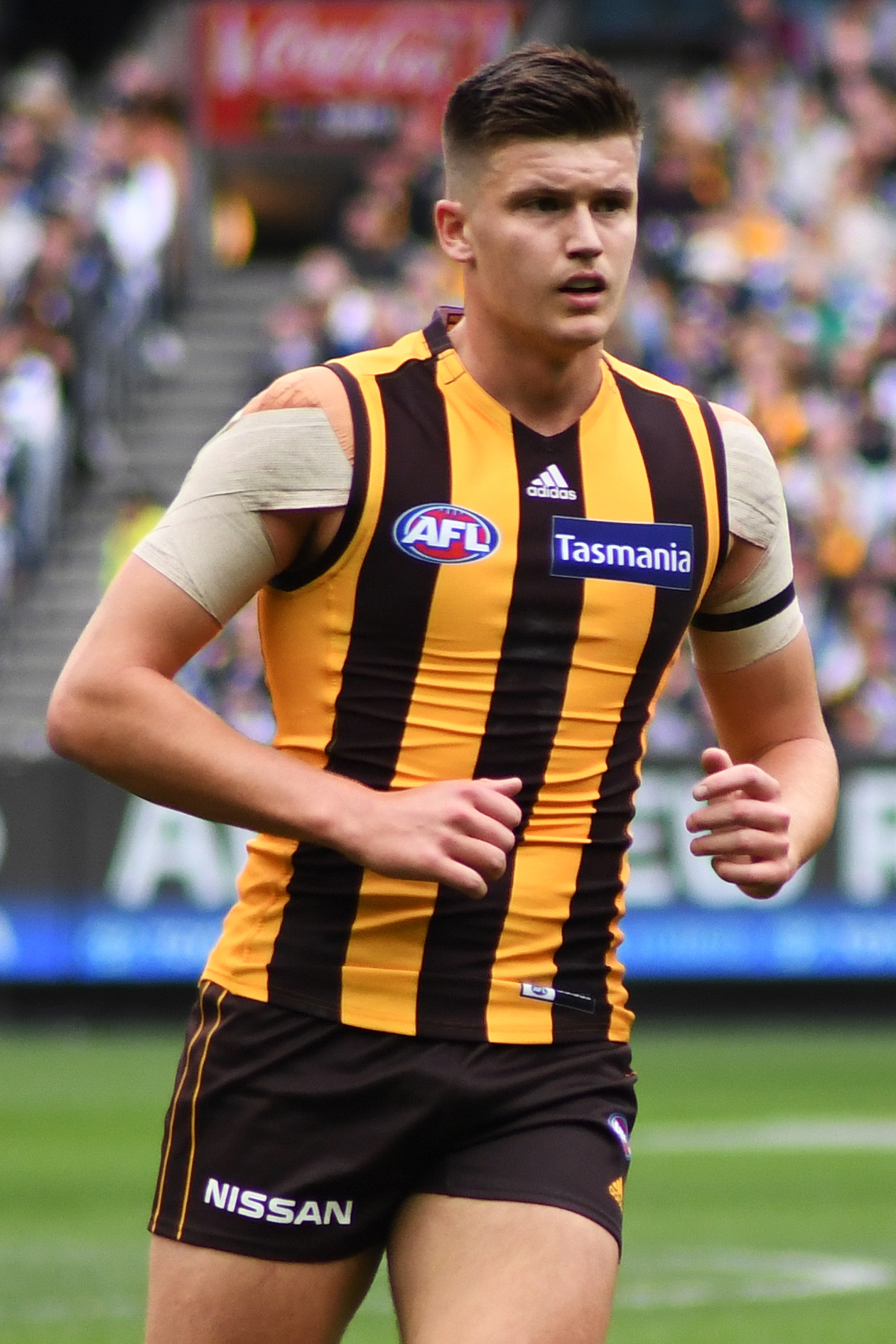 Mitchell Lewis of Hawthorn during the 2019 AFL round 5 match between Hawthorn and Geelong at the Melbourne Cricket Ground on Monday, 22 April 2019 in Melbourne, Victoria.